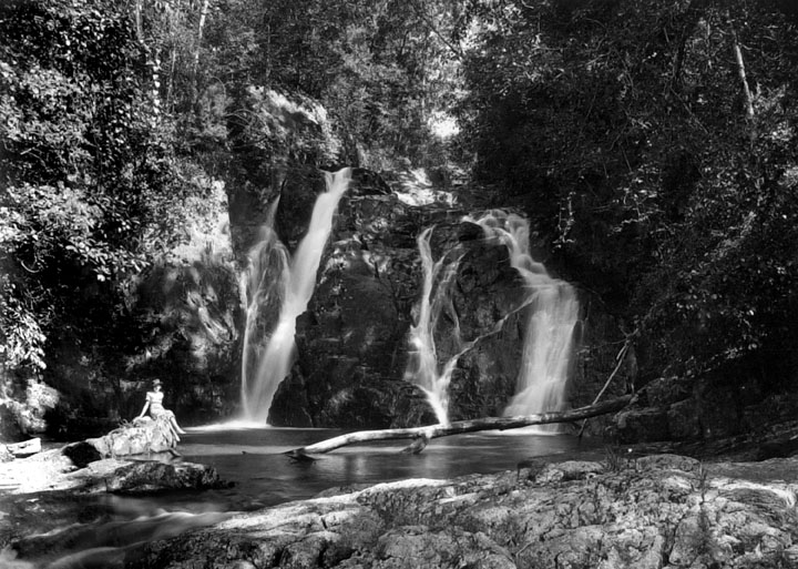 Rays Falls, head of Barron River at Mount Hypipamee near Herberton. (These falls are now known as Dinner Falls and are part of the Mount Hypipamee National Park.)